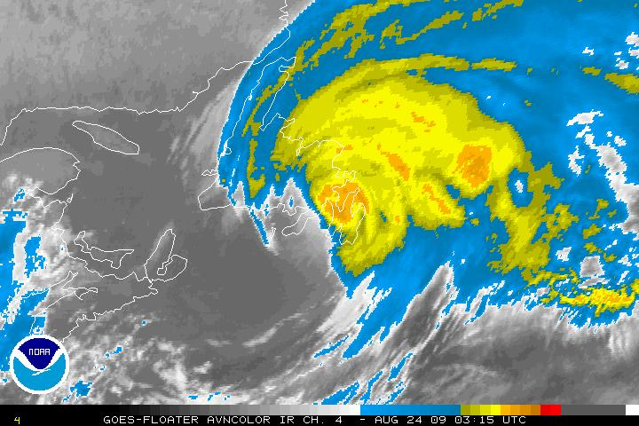 Infrared (AVG) image of Hurricane Bill off Newfoundland, 24 August 2009.